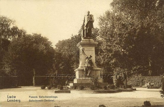 non existing, erected 1901